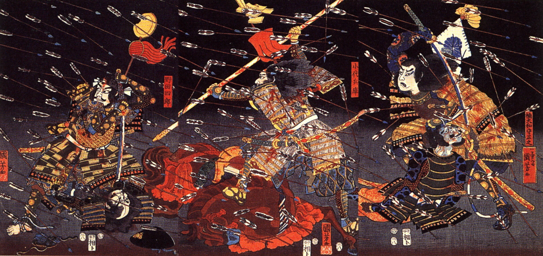 Kusunoki Masatsura (right), Koshirô Hyôgo (center) and Noda Shirô (left) at the Battle of Shijo-nawate in 1348